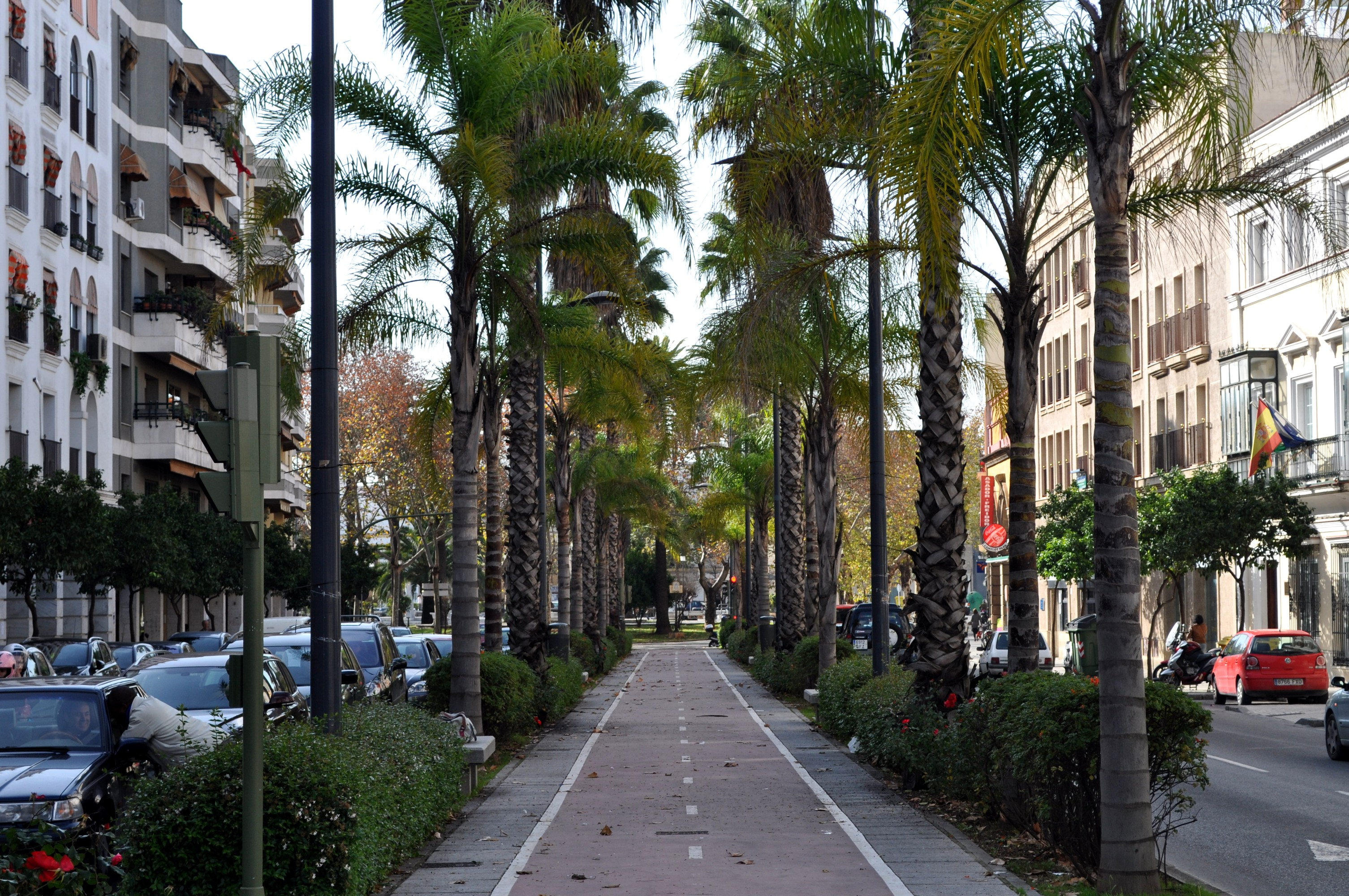 Alcalde Alvaro Domecq St., Jerez de la Frontera